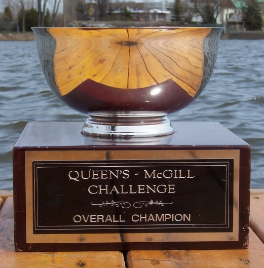 The D. Lorne Gales Challenge Cup, awarded to the overall winner of the Queen's McGill Challenge Boatrace. It is named after D. Lorne Gales, the founder of the McGill Development Office and a member of the original McGill University Rowing Club, circa 1930.